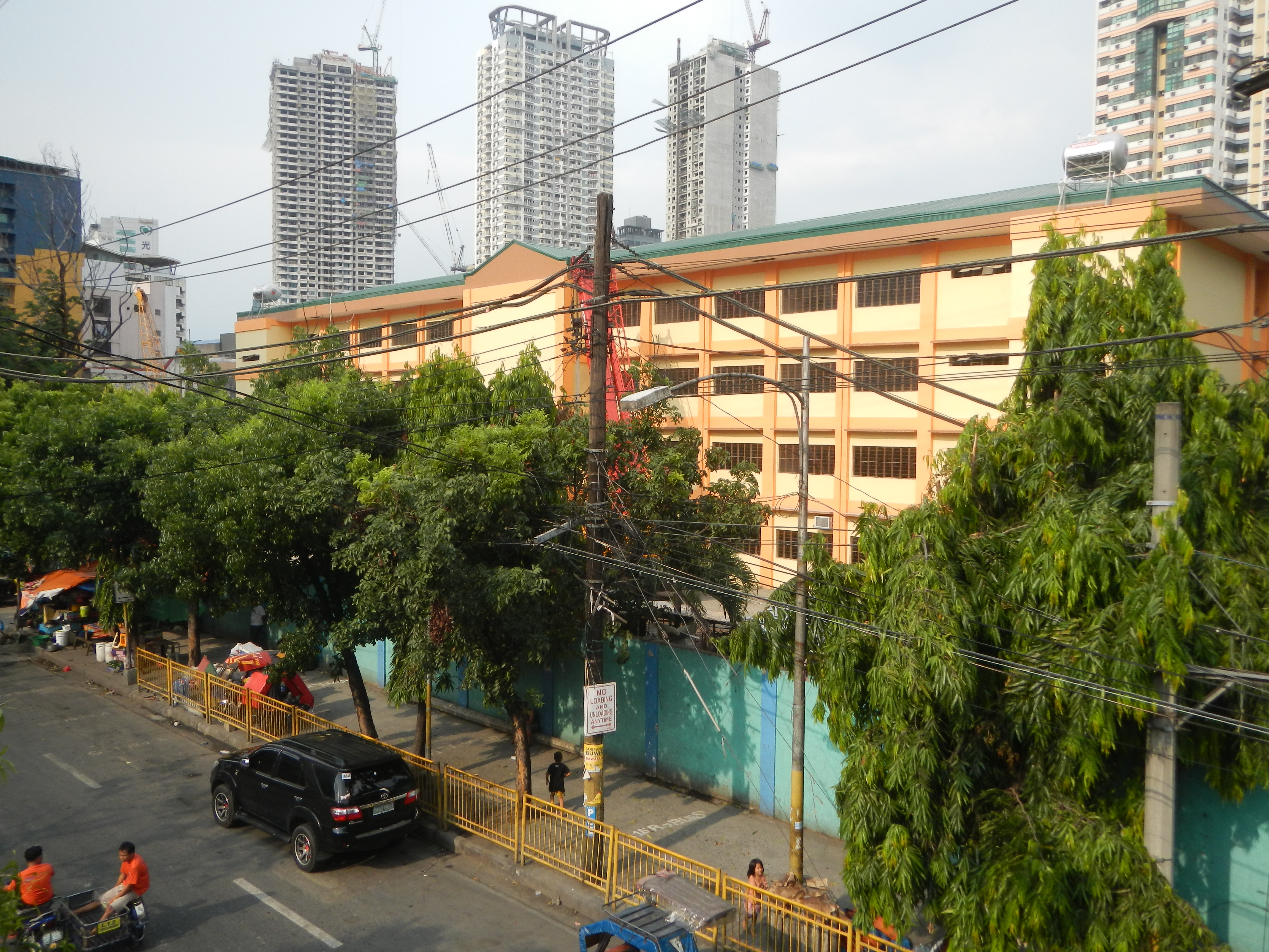 General Gregorio del Pilar Elementary School (Abad Santos Avenue-Recto Avenue) Jose Abad Santos Avenue List of roads in Metro Manila to Solis Street Abad Santos Avenue to C.M Recto-Abad Santos Footbridge City of Manila, Santa Cruz, Manila in Rizal Avenue corner Recto Avenue, Santa Cruz, Manila.